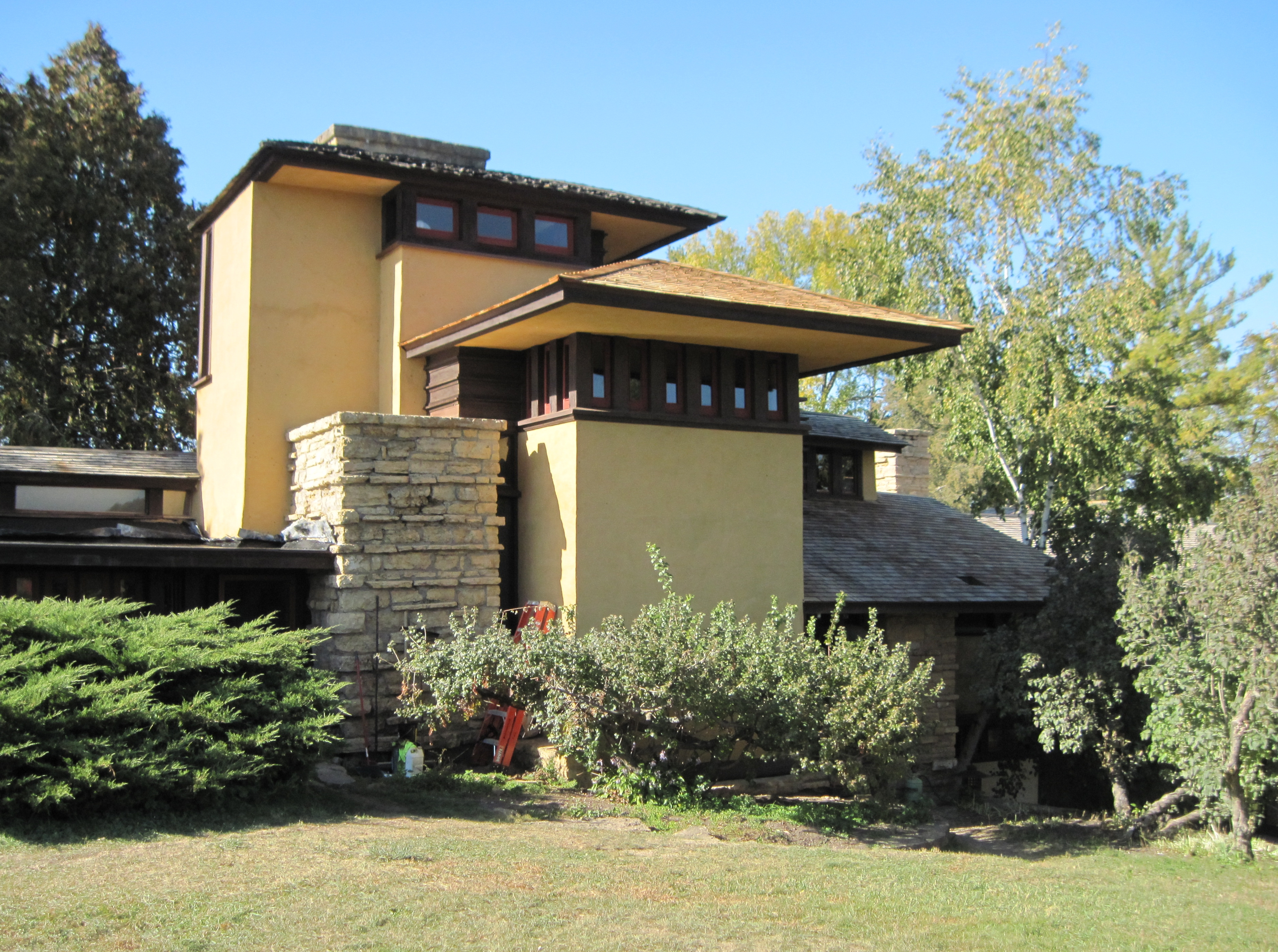 Taliesin